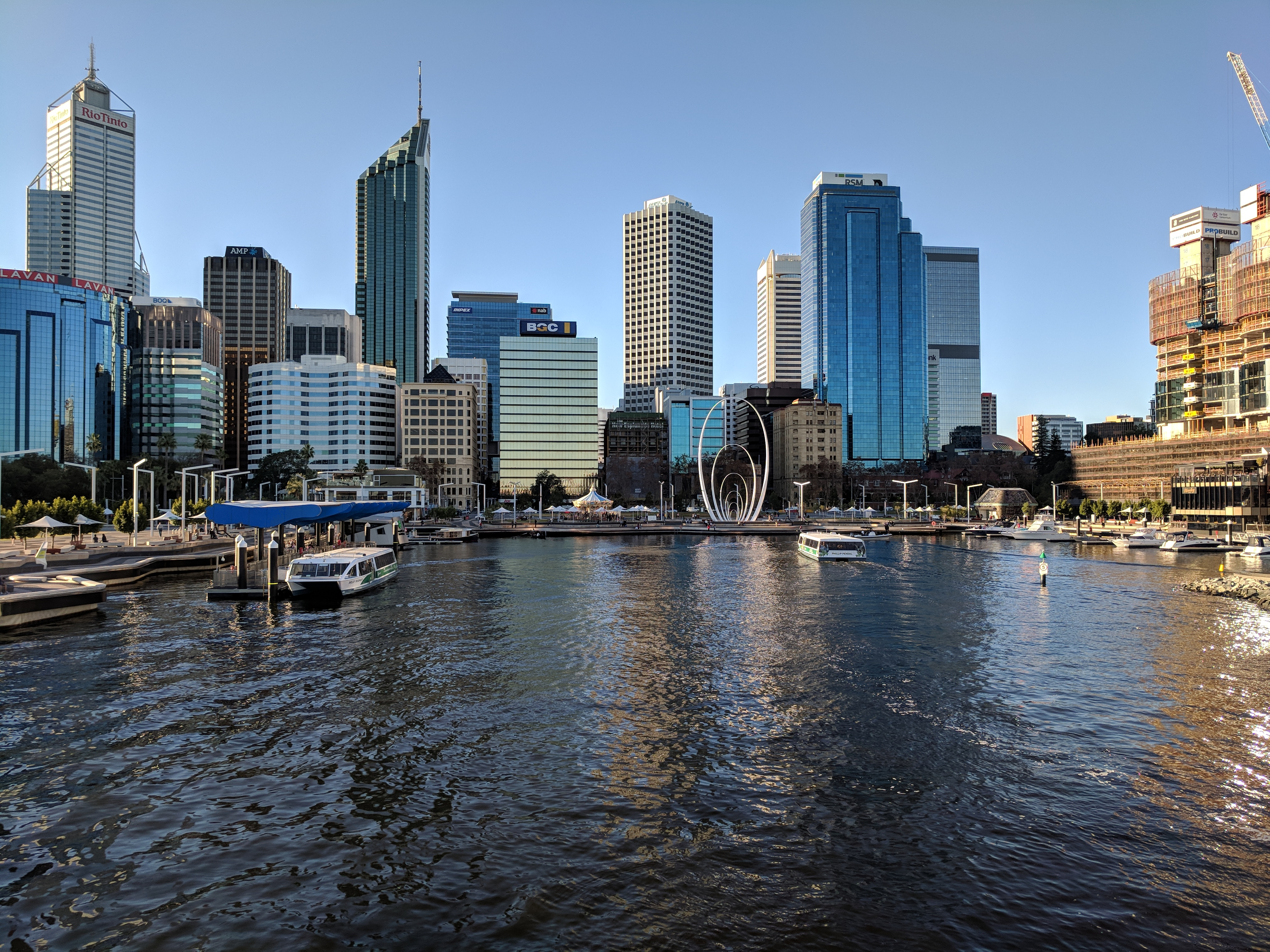 Elizabeth Quay and the Perth CBD